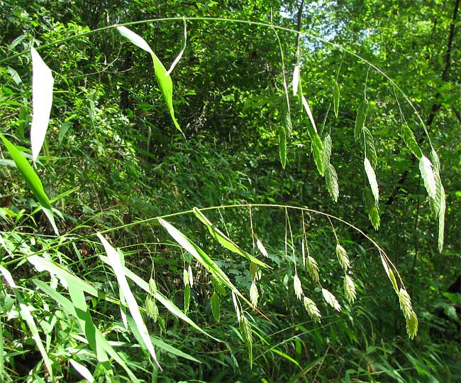 Grass from the species Chasmanthium latifolium